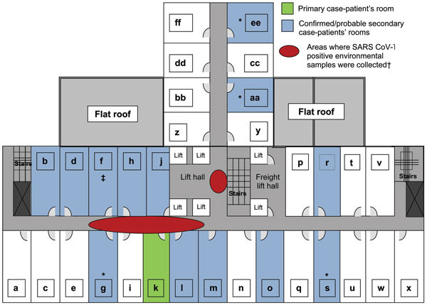 Figure 1. . . Layout of ninth floor of Hotel Metropole, where superspreading event of severe acute respiratory syndrome (SARS) occurred, Hong Kong, 2003. *2 cases in room; †see (16); ‡case-patient visited room. CoV, coronavirus.